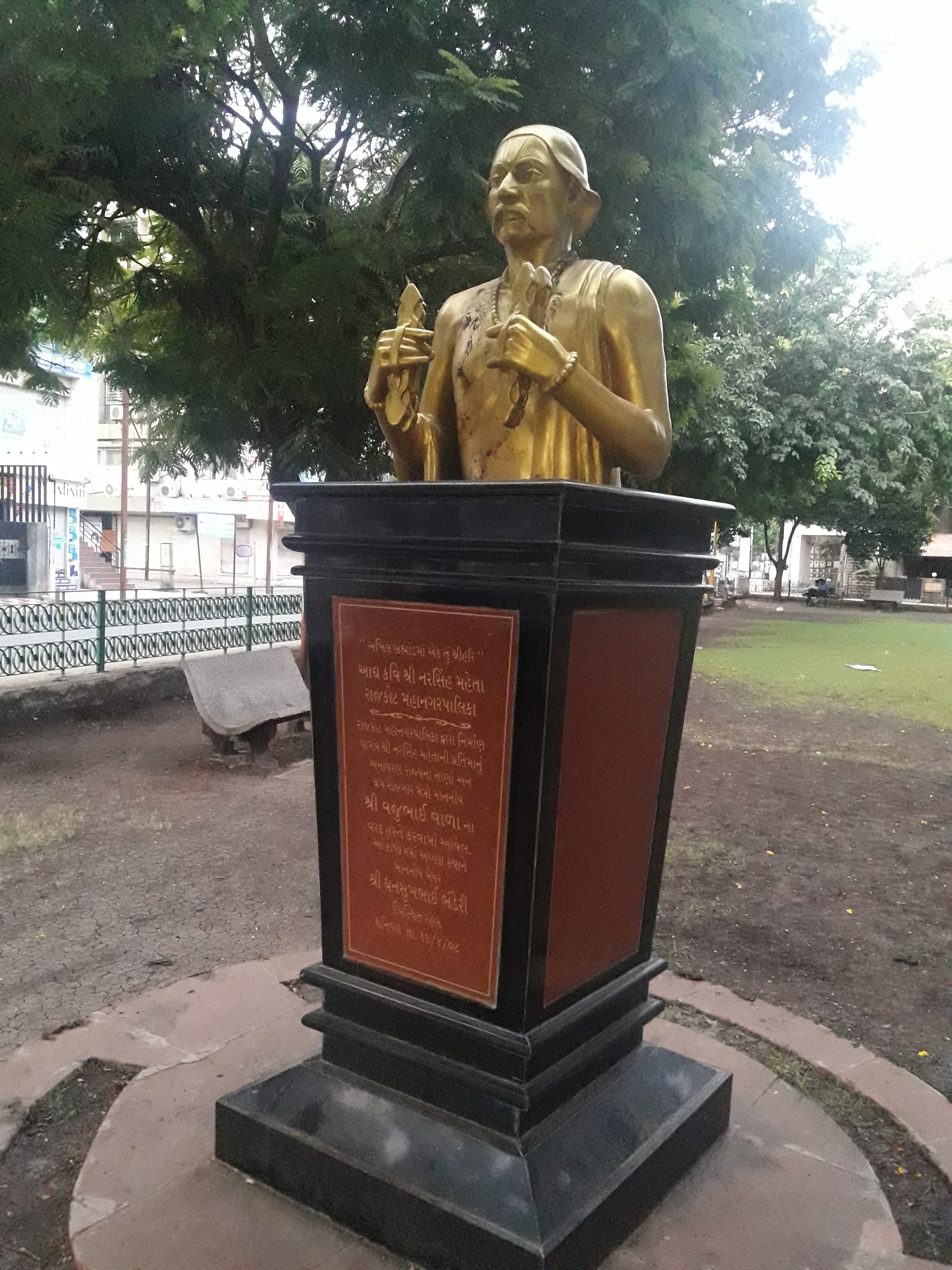 Bust of medieval Gujarati poet Narsinh Mehta in Rajkot, Gujarat.